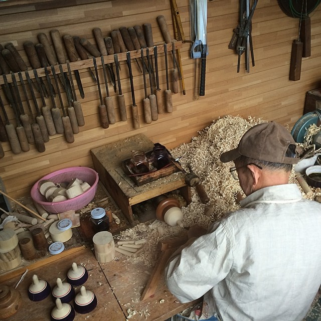 Craftsman who make "Oyama_Top"